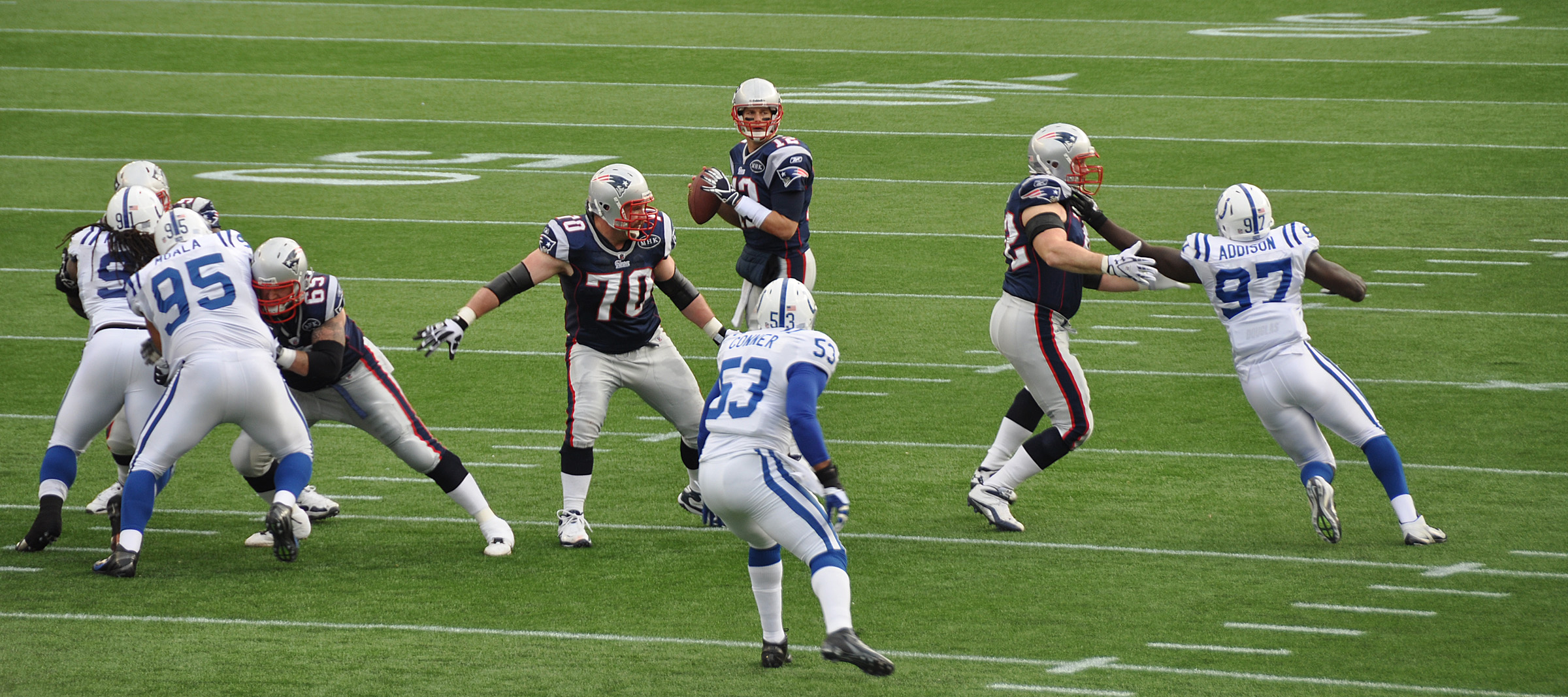 Brady looks for an open receiver as his offensive line forms a pocket around him.